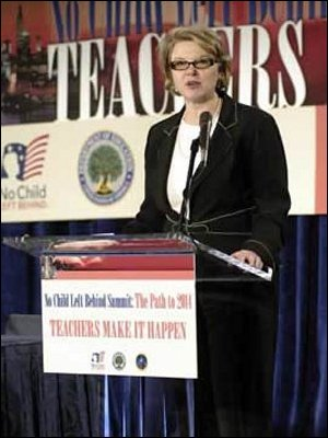 Secretary Spellings speaks at the first of several summits on No Child Left Behind at the Philadelphia School District Education Center in Philadelphia, Pennsylvania.